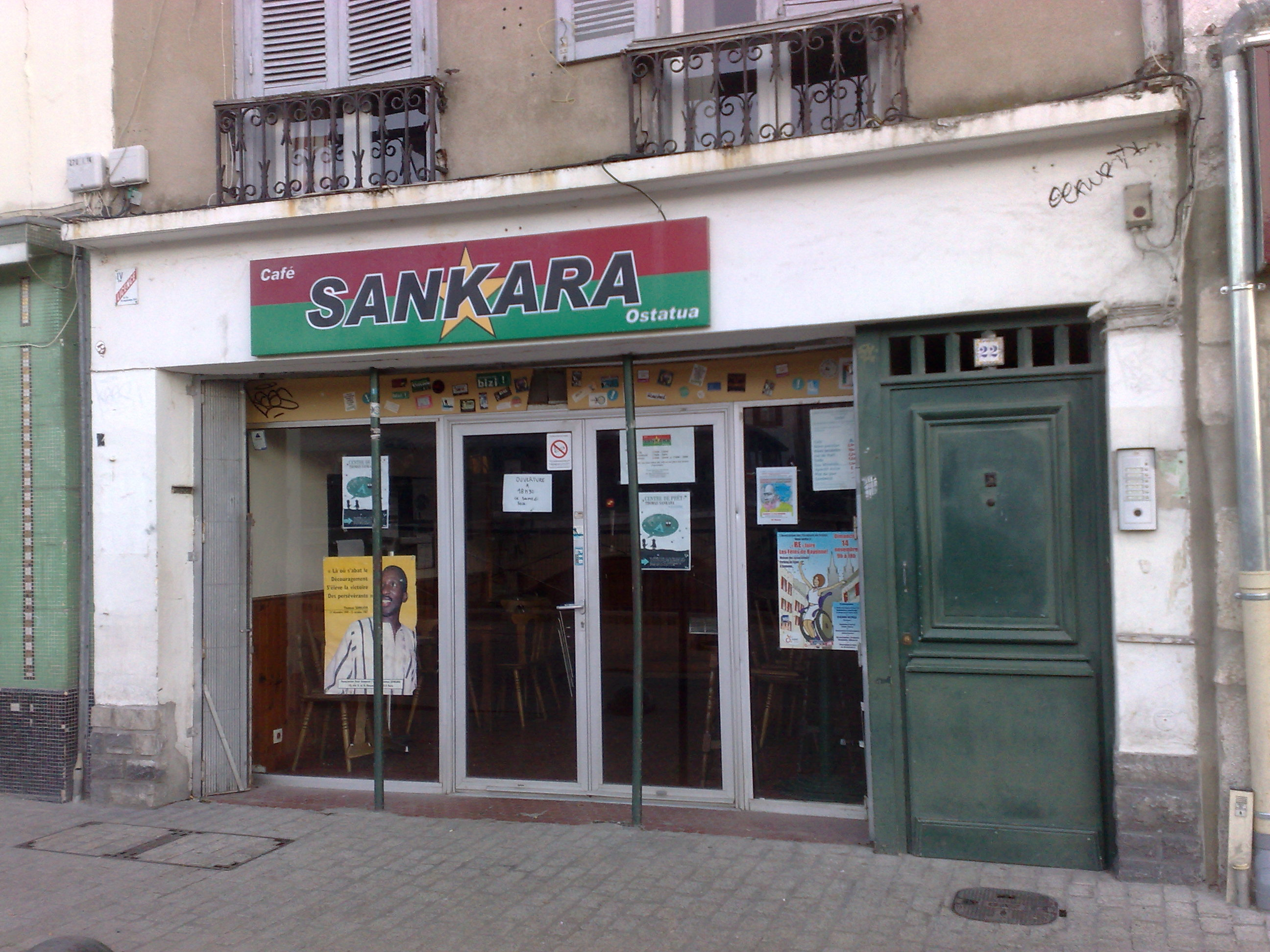 Sankara café in Baiona (fr. Bayonne, Lapurdi-Labourd, Basque Country); the name is an homage to Thomas Sankara, the Burkina Fasoan leader.